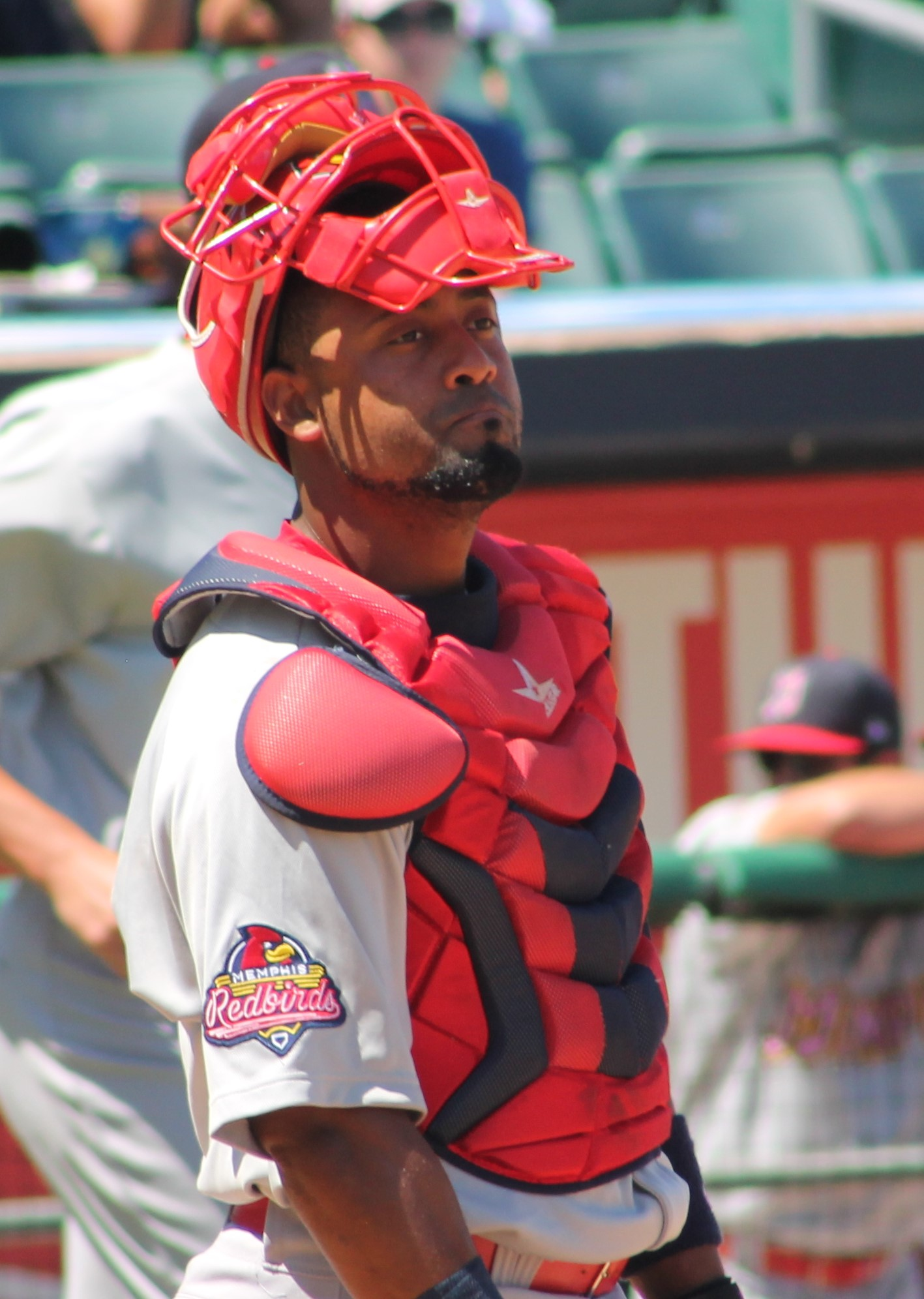 Professional baseball player Alberto Rosario during an April 2017 game.